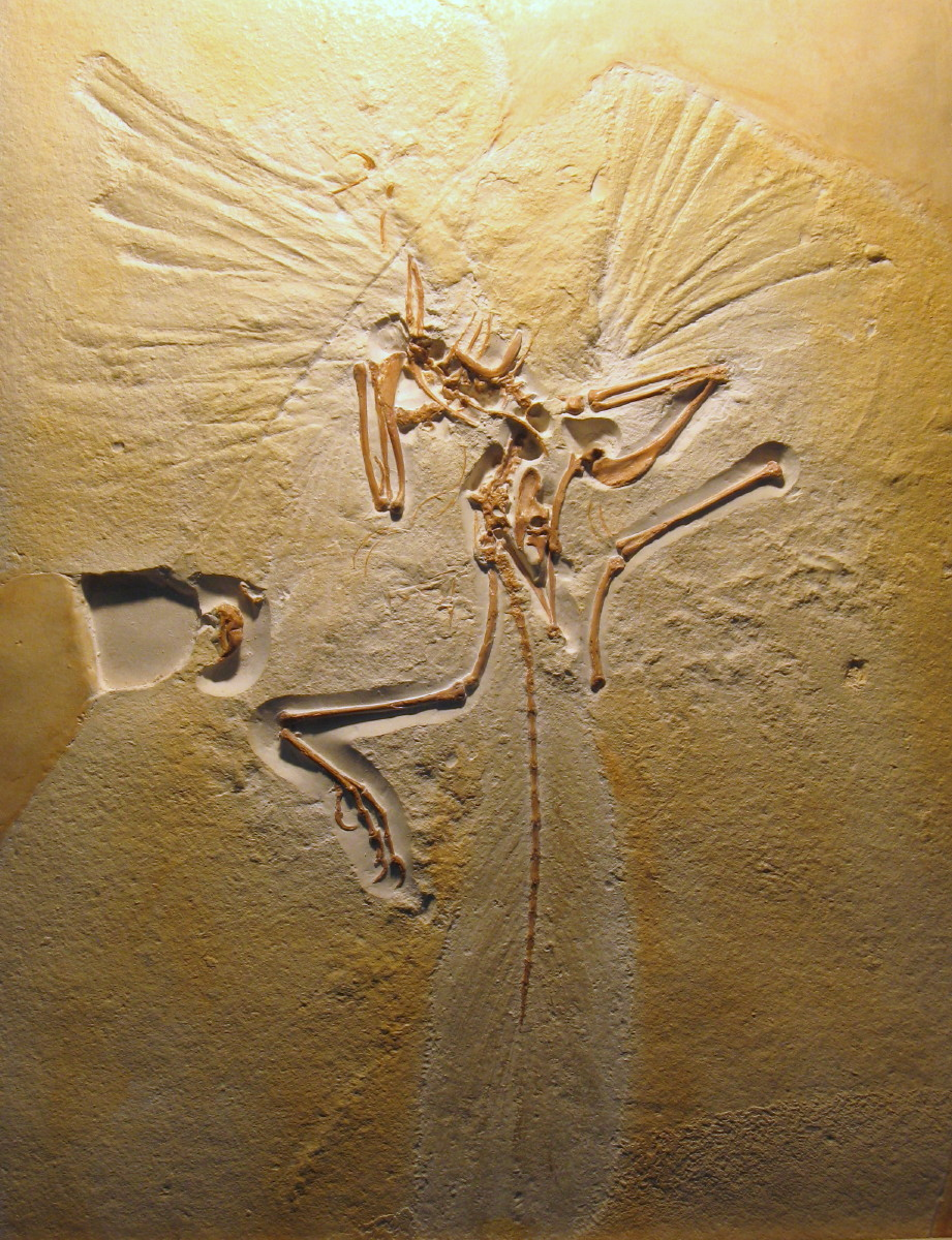 Archaeopteryx lithographica, cast of the London specimen, as displayed on the Munich Mineral Show 2009